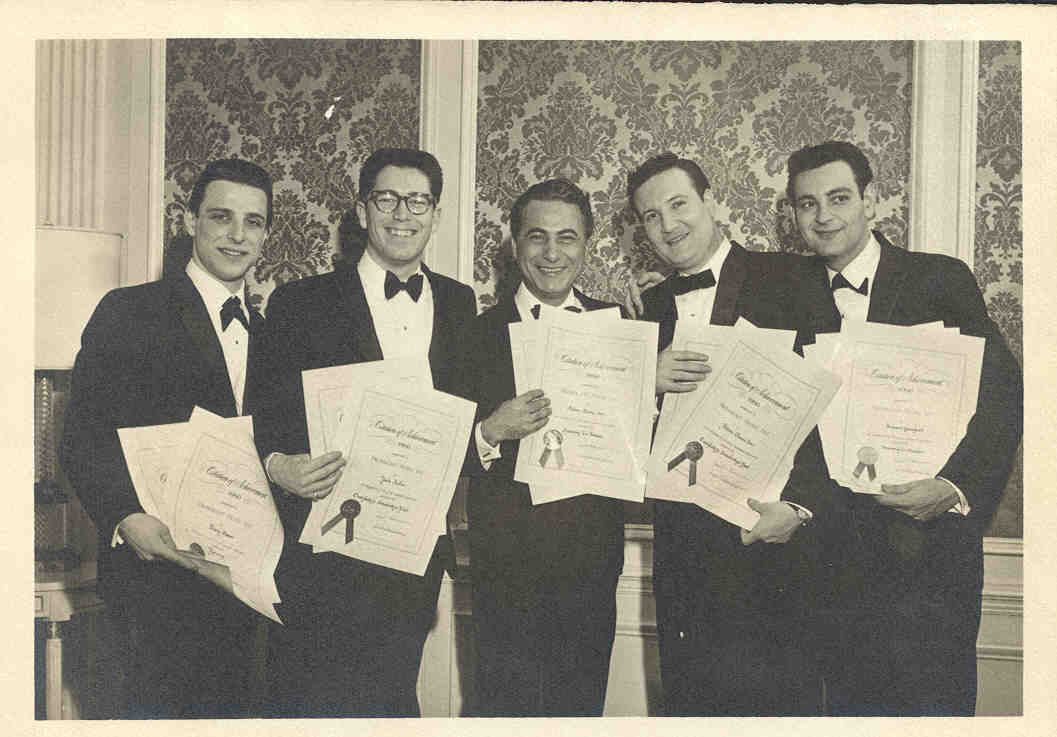 BMI dinner 1962